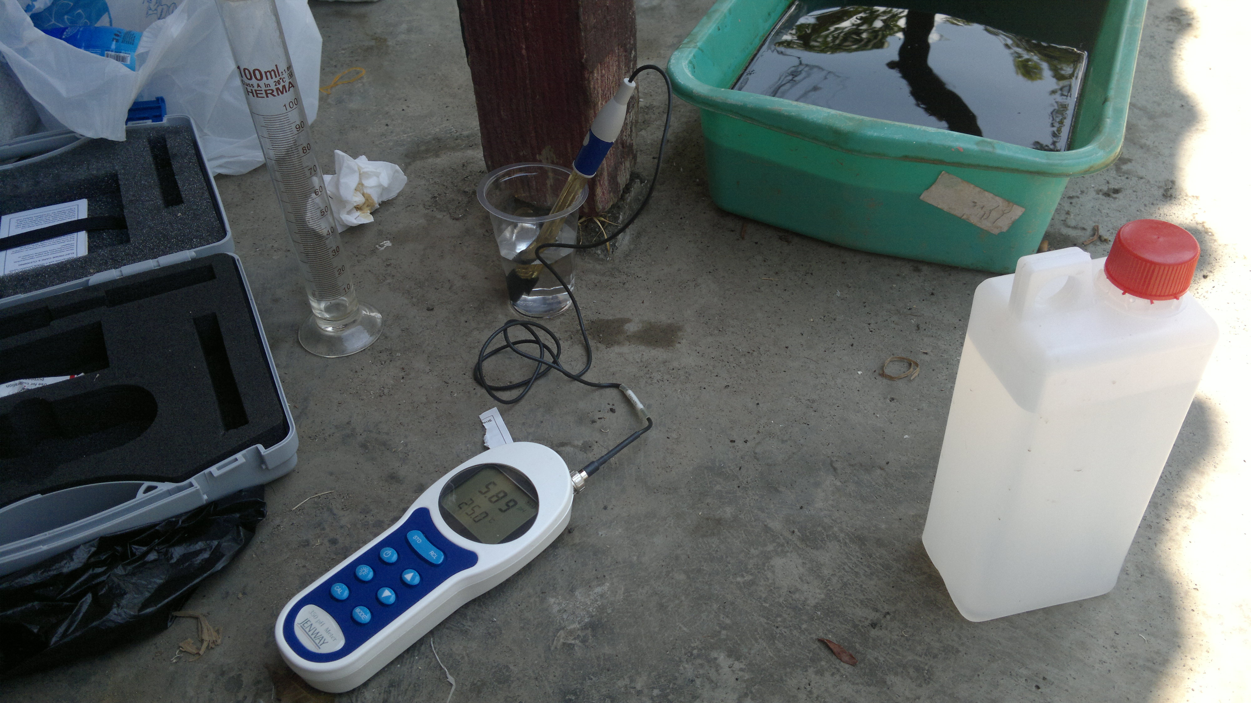 vinasse pH measurement using a pH meter